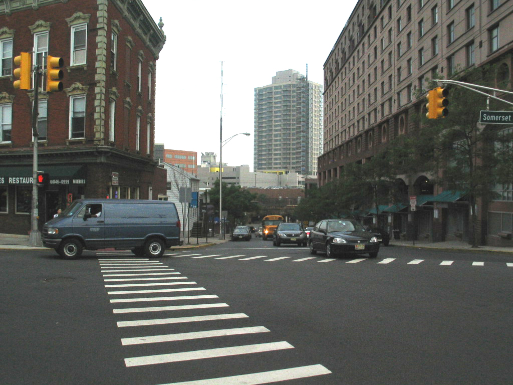 The Street In New Brunswick NJ